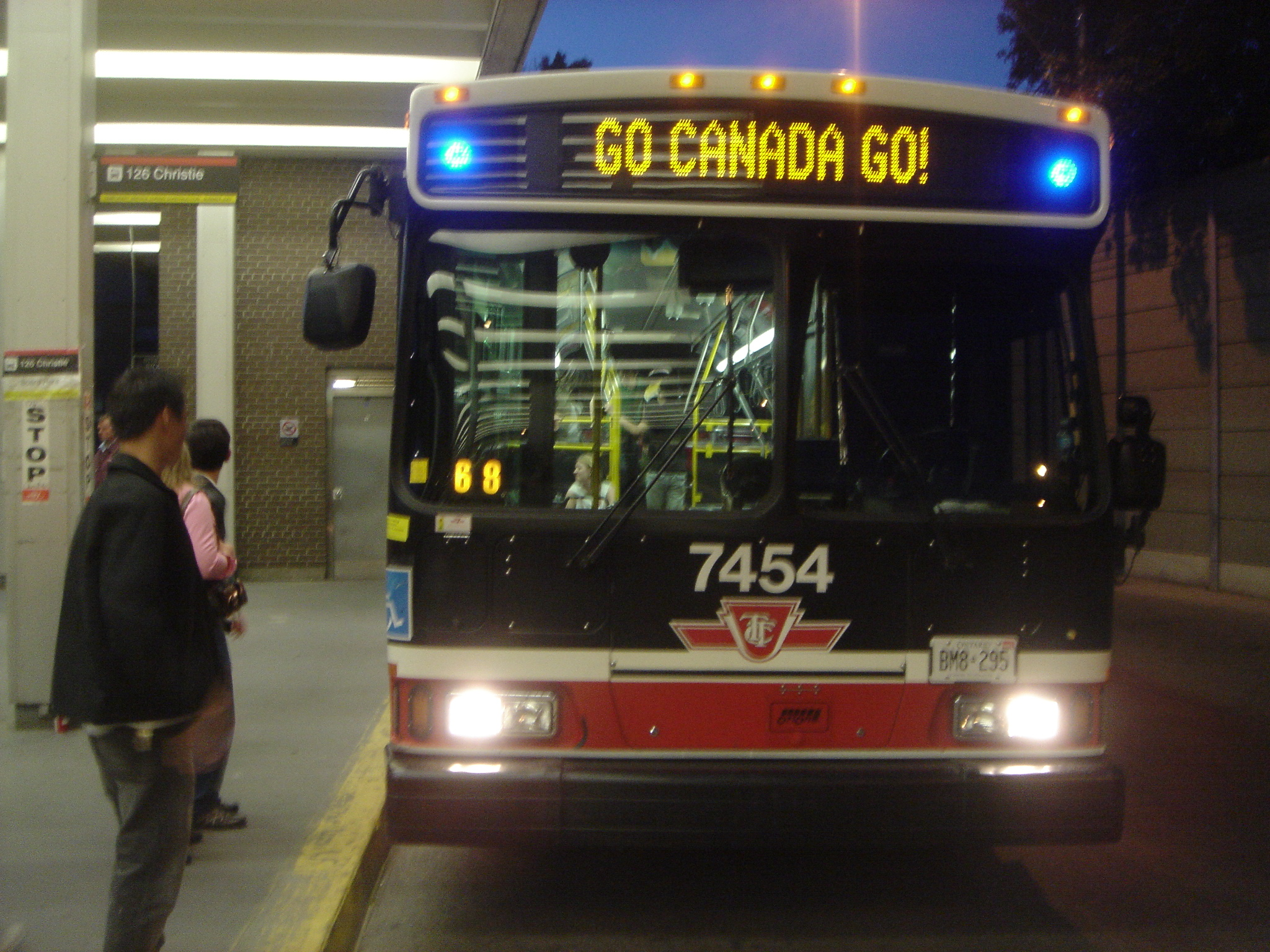 Toronto Transit Commission Bus on July 1 (Canada Day) in Toronto, Canada.Canada Day Bus